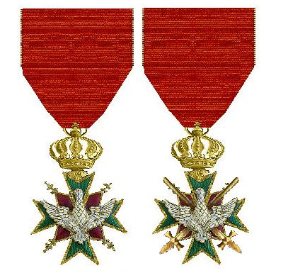 Order of the White Falcon Saxe-Weimar-Eisenach